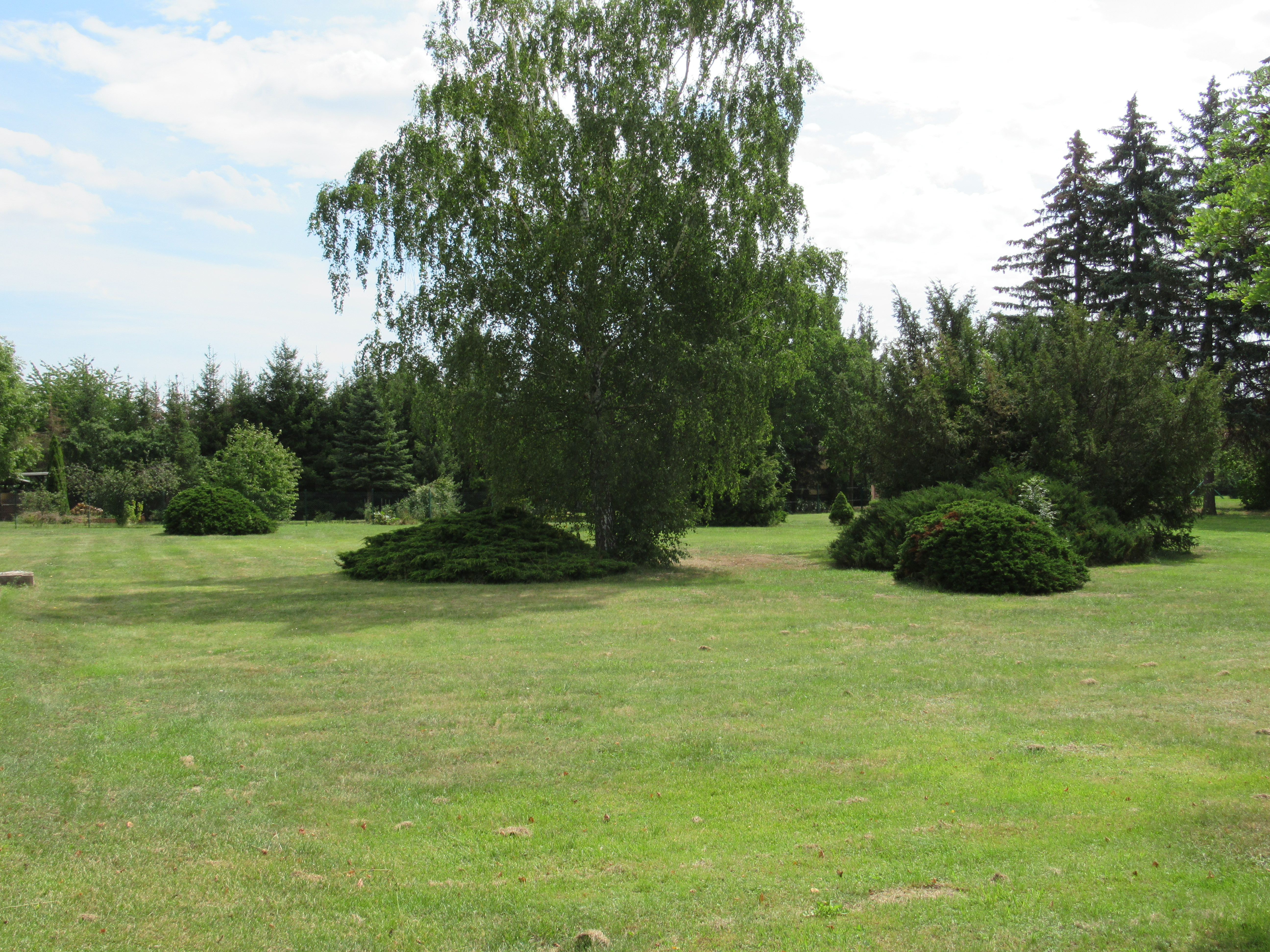 Wallhausen (Helme) Grave Field of Bombing Victims 1945